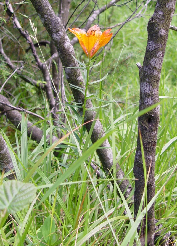 Lilium bulbiferum in habitat, Tyrol, Austria